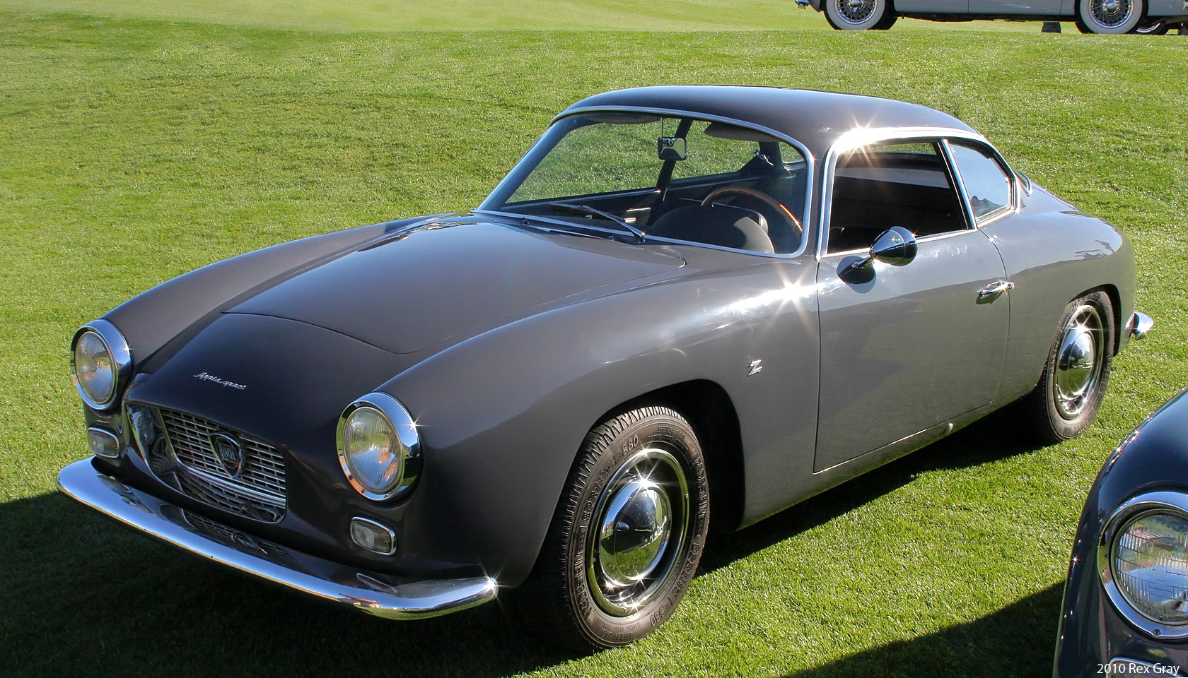 1961 Lancia Appia Sport. Photograph taken at 2010 Desert Classic Concours d'Elegance.